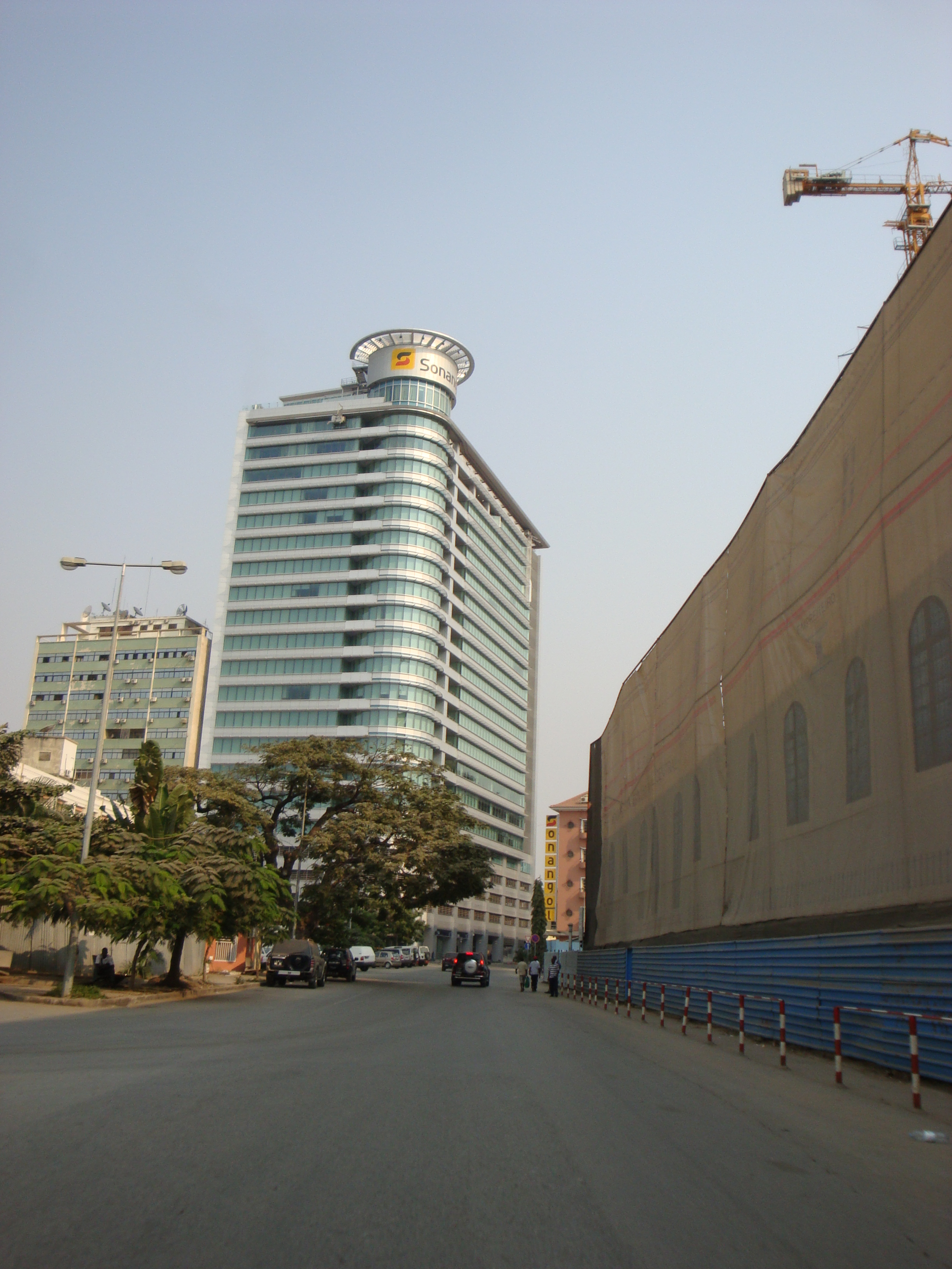 Sonangol headquarters building in Luanda, Angola